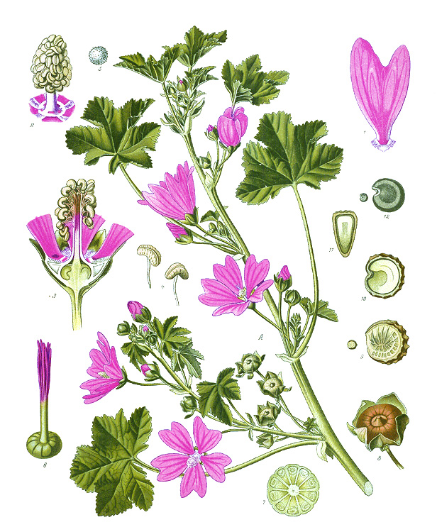 Illustration of MALVA silvestris L. 59 (Malva sylvestris L., high mallow)